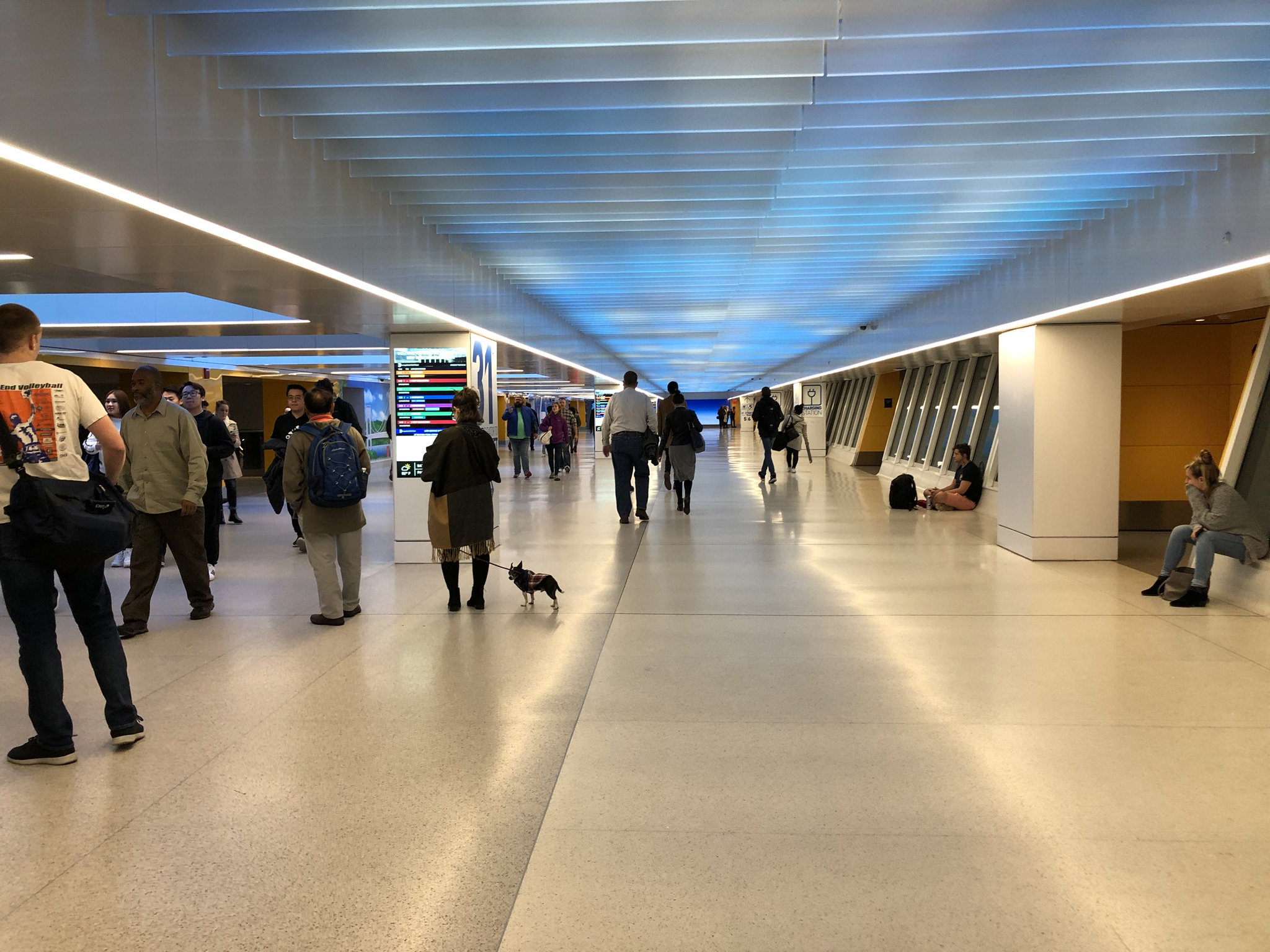 Site: Moynihan Train Hall - Phase 1 Penn Station